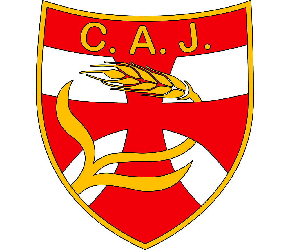 Classical emblem of the german Young Christian Worker (YCW)